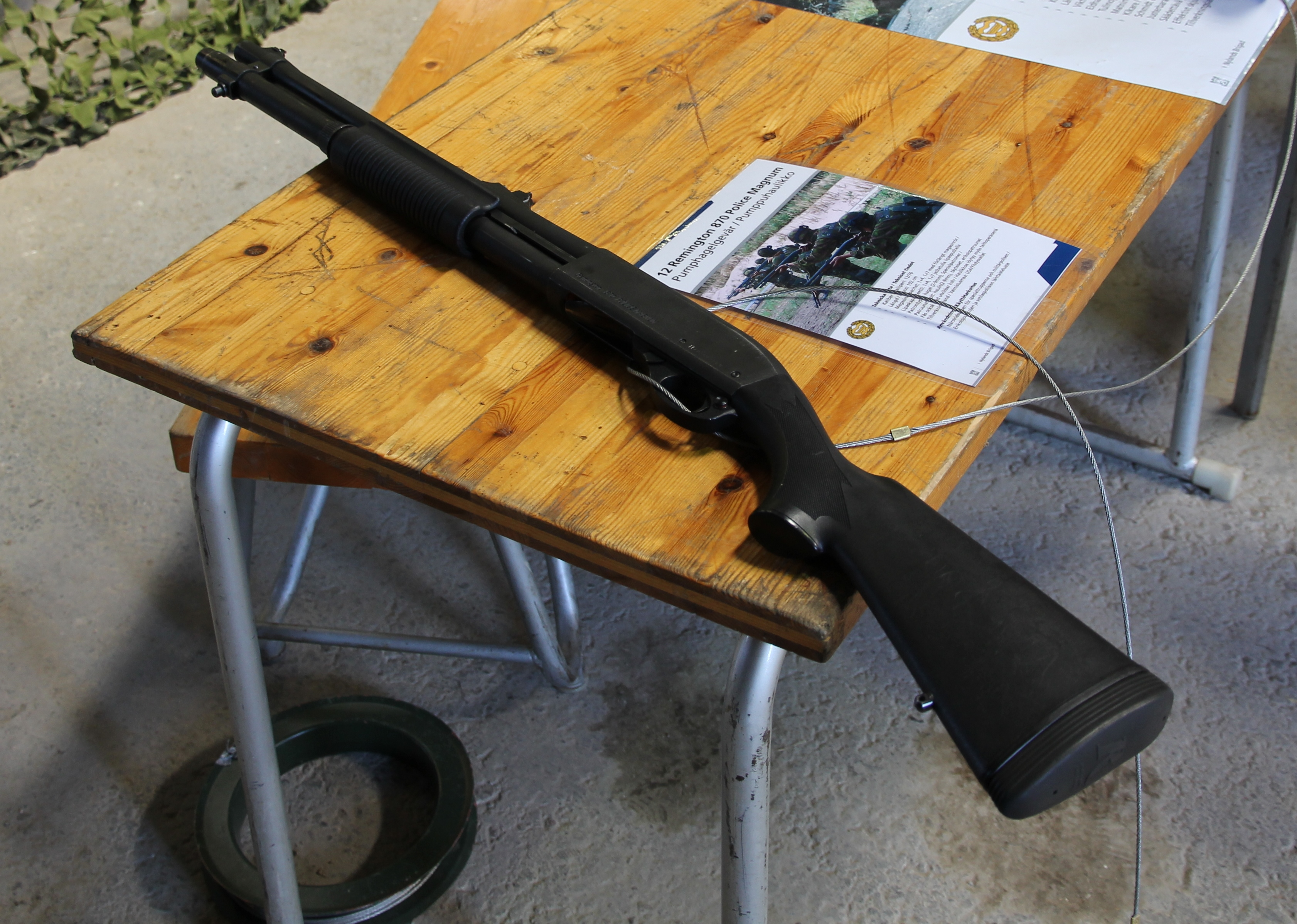 12 Remington 870 Police Magnum pump-action shotgun on display during Finnish Defence Forces 2013 Flag day in Ekenäs harbour.